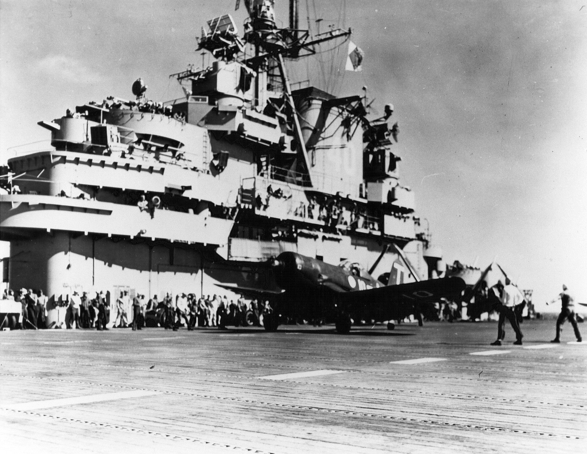 A U.S. Navy Vought F4U-4 Corsair of fighter squadron VF-4 Red Rippers, Carrier Air Group 4 (CVG-4), on the flight deck of the USS Tarawa (CV-40), circa 1946/47. VF-4 was redesignated VF-1A on 15 November 1946 and VF-11 on 2 August 1948.